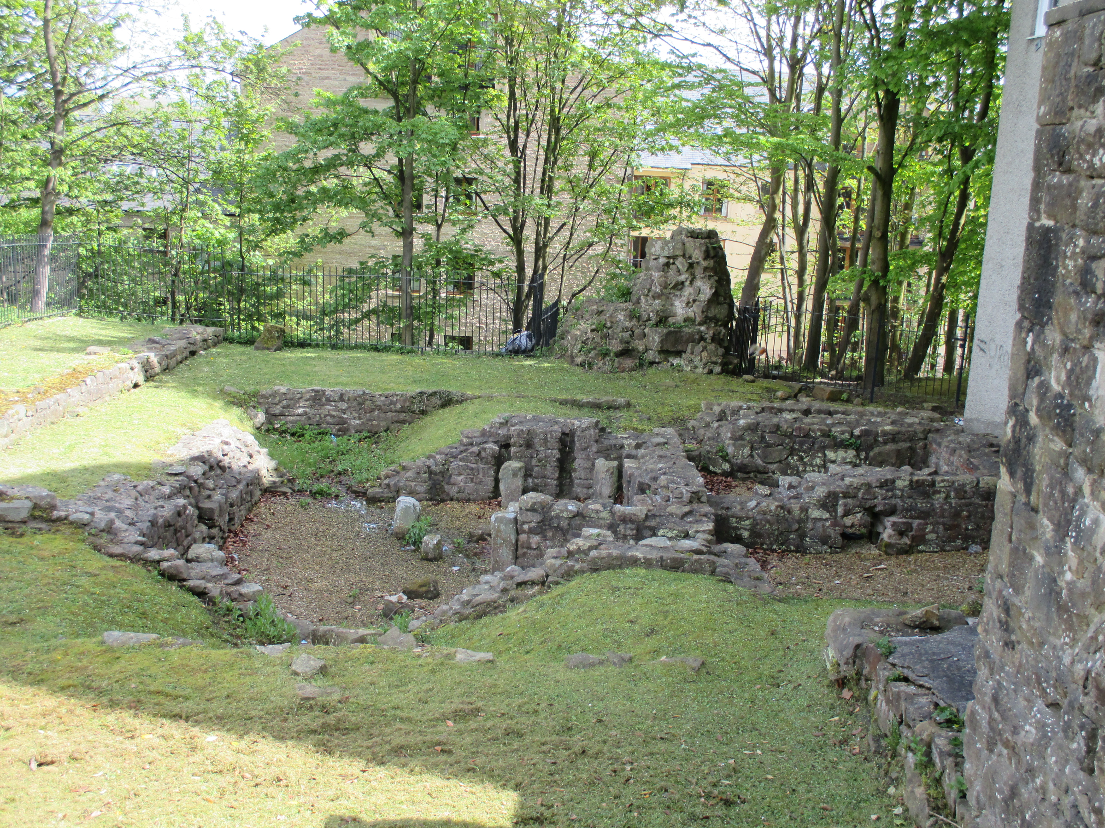 The Roman bath house on Castle Hill, Lancaster.